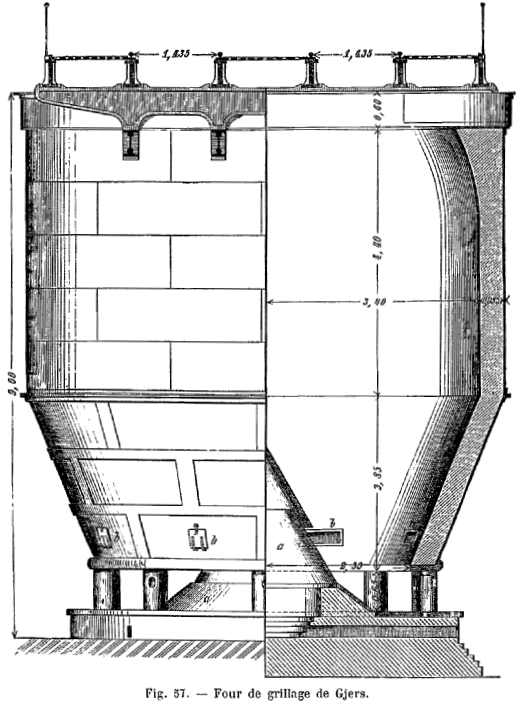 Iron ore roasting kiln. John Gjers model. This is a variant of the kiln used in the Province of Upper Silesia, with a lower cone to control roasted ore extraction.